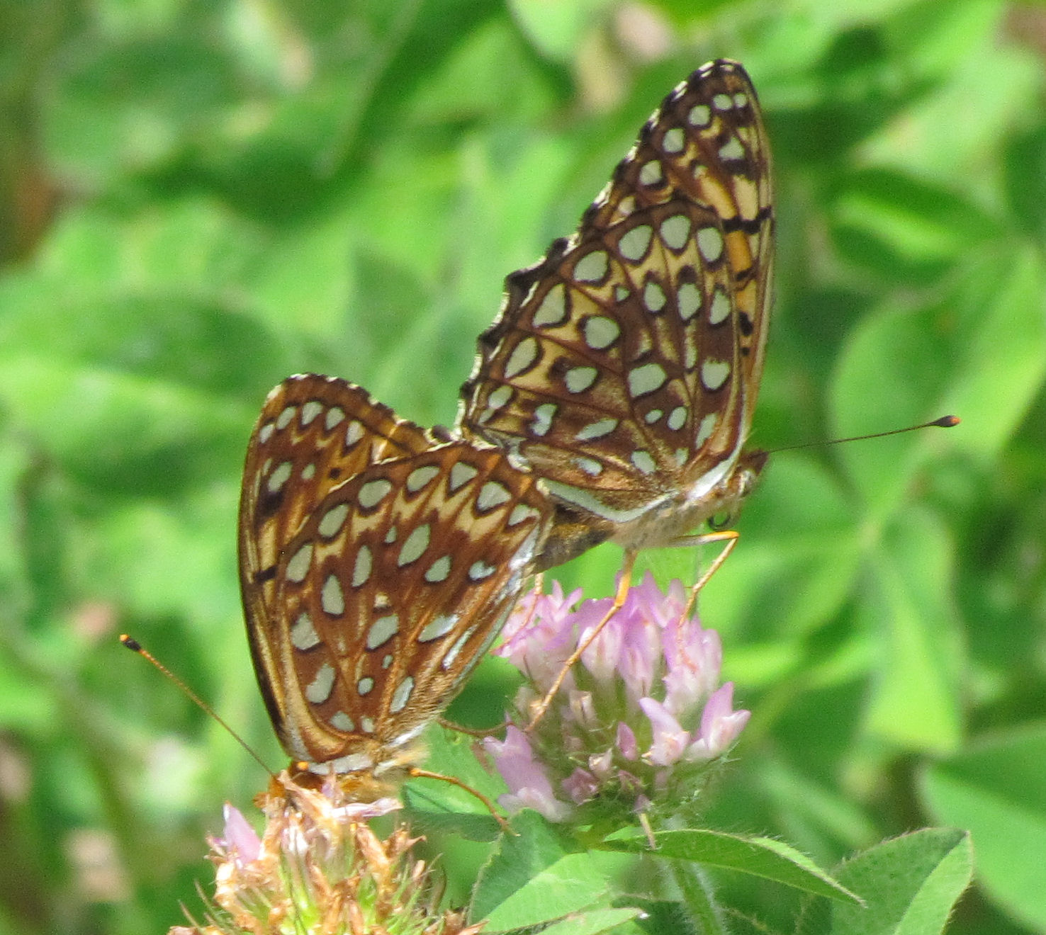 Atlantis Fritillary (Speyeria atlantis), mating, Larose Forest, Ontario, Canada